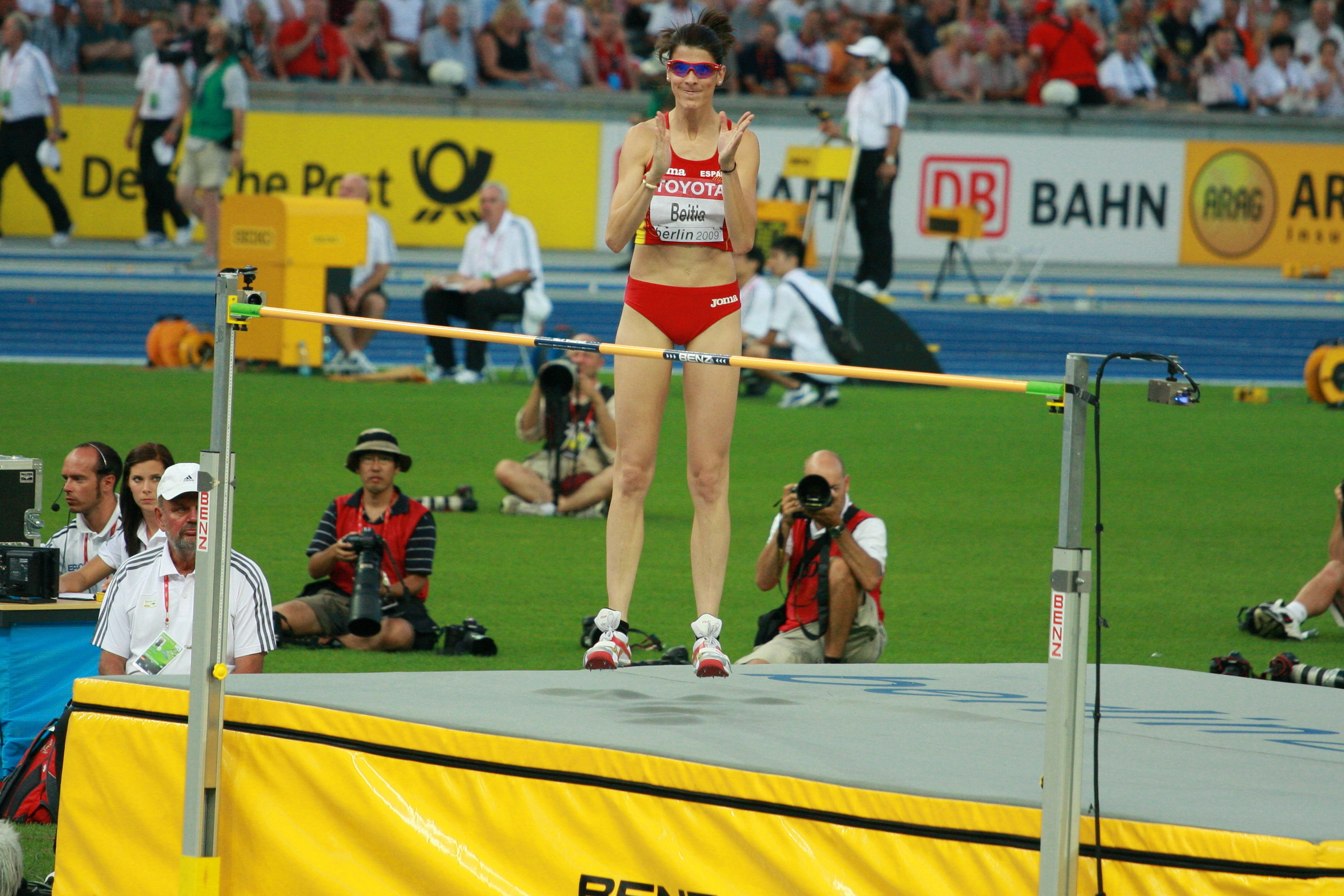 High Jump Final